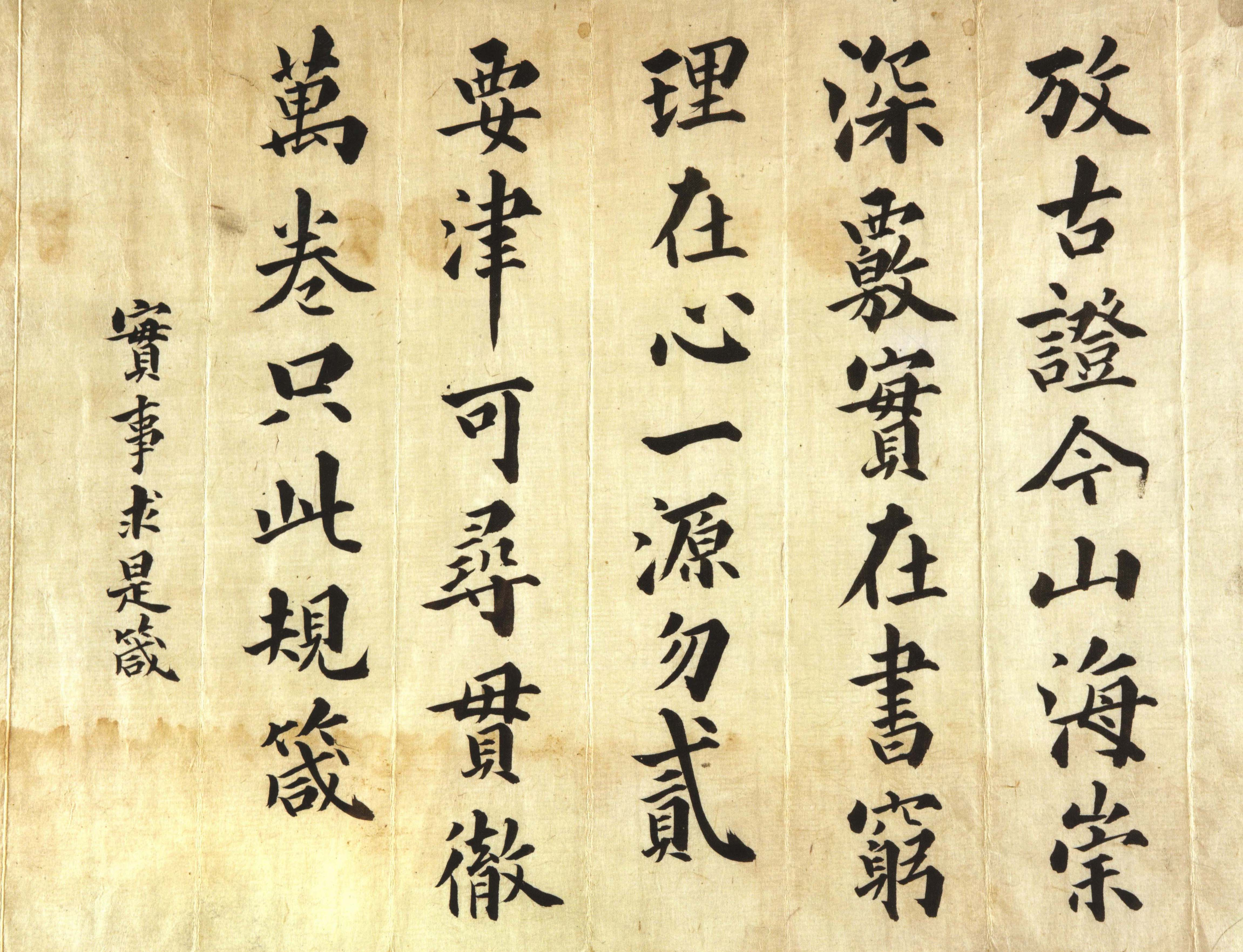 The Korean calligraphy titled "Silsa gusijang" was written by Kim Jeonghee